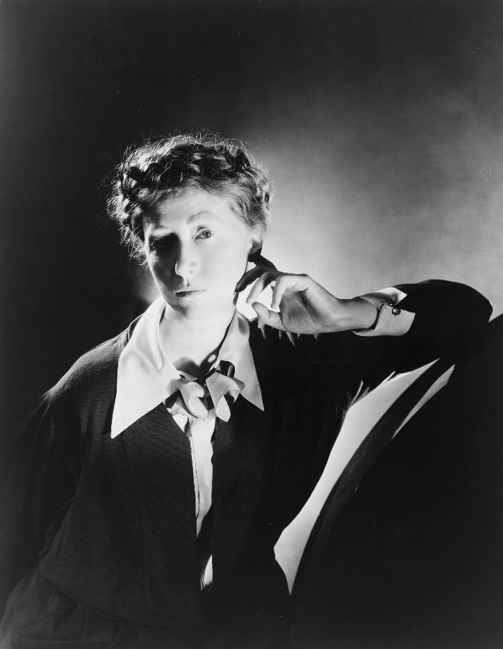 American poet and writer Marianne Moore (1887–1972). Photograph by George Platt Lynes (1907-1955). Gelatin silver, 22.8 x 17.7 cm.